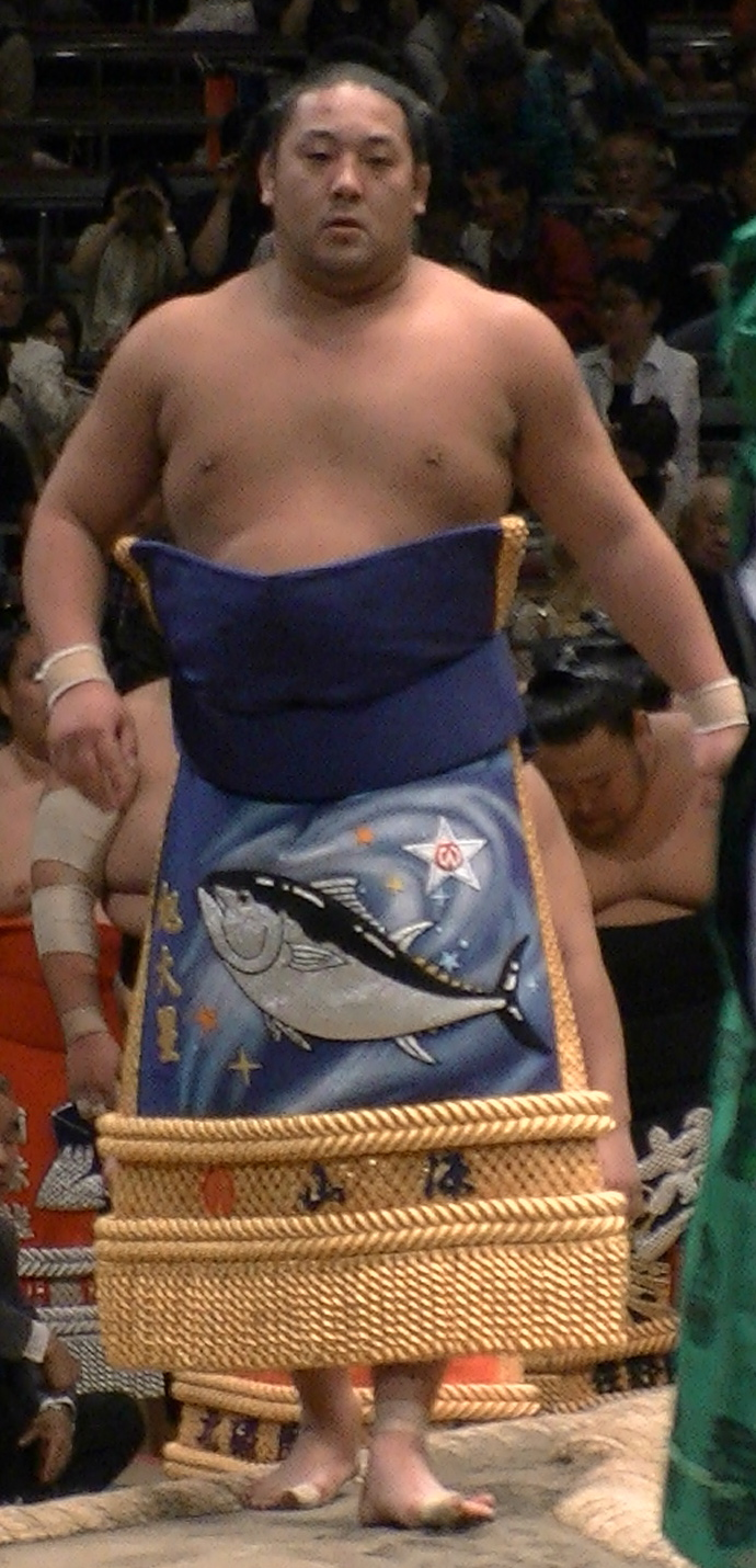 Taken at September 2014 tournament